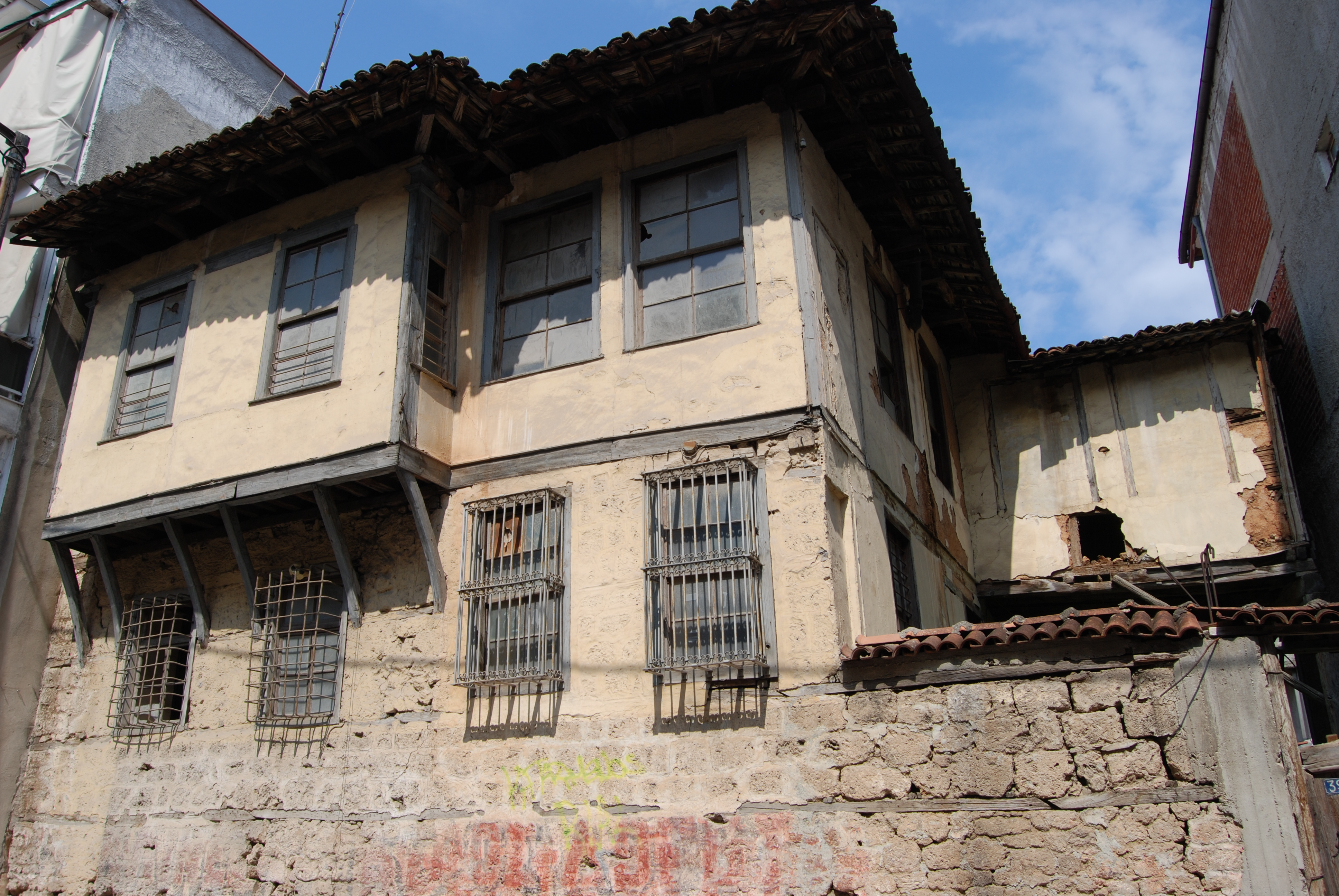 Buildings in Naousa